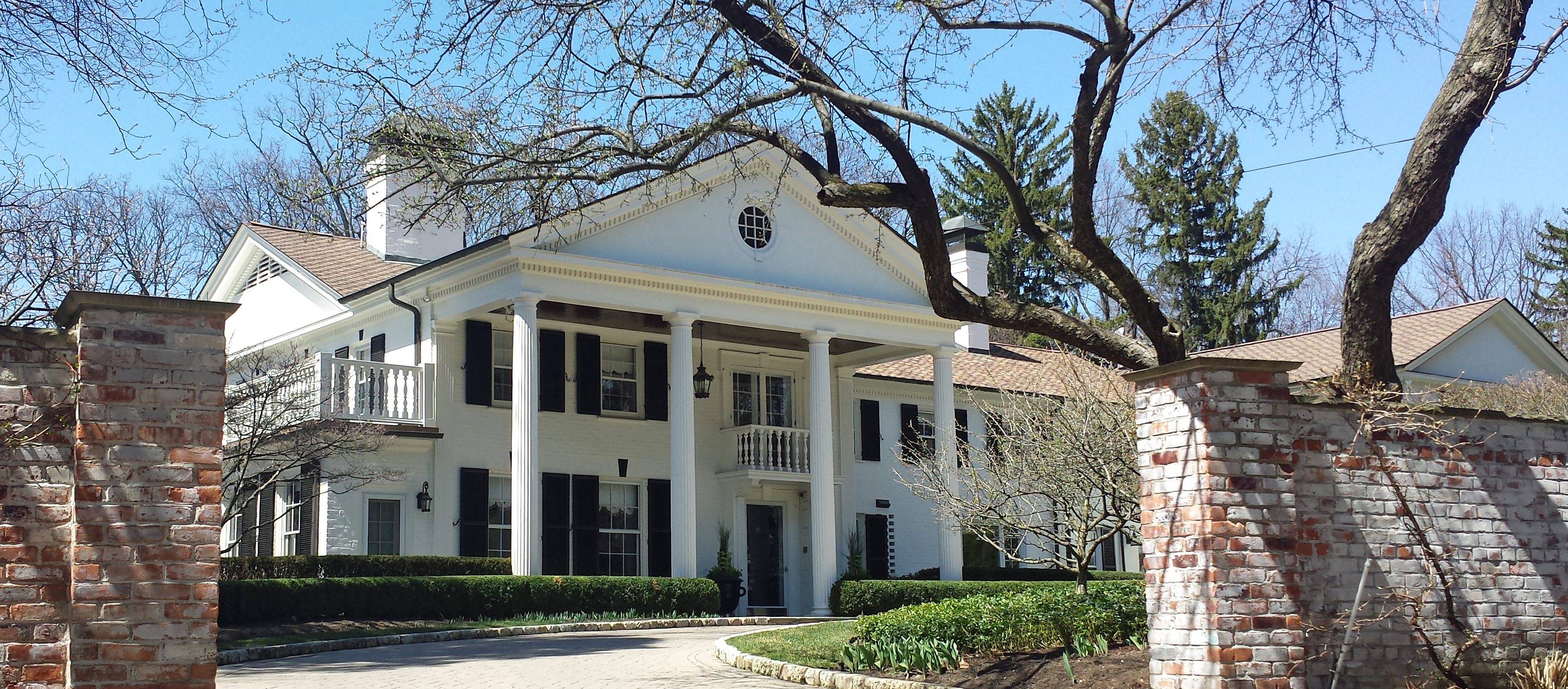 Home of Donald B. McLouth, founder and president of the McLouth Steel Corp. of Detroit. Built in 1941, Hugh T. Keyes, architect